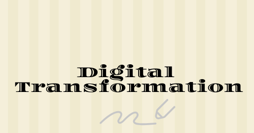 Цифрова трансформація